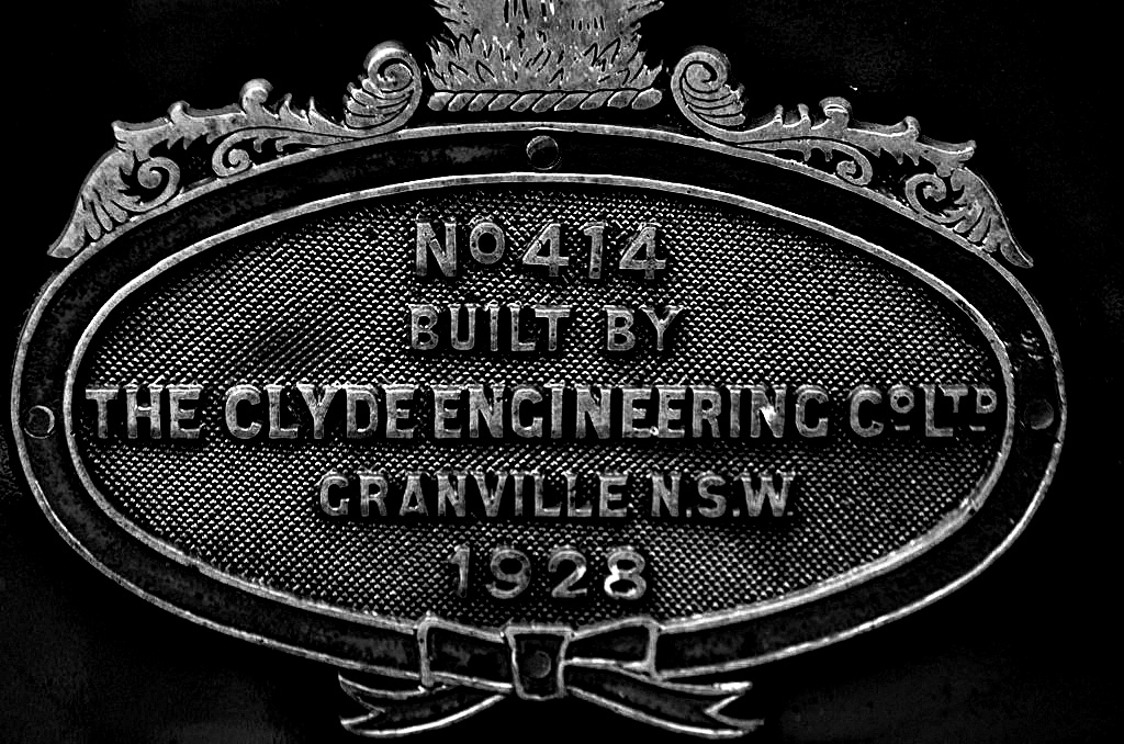 NSWGR Locomotive 3642 Makers Plate